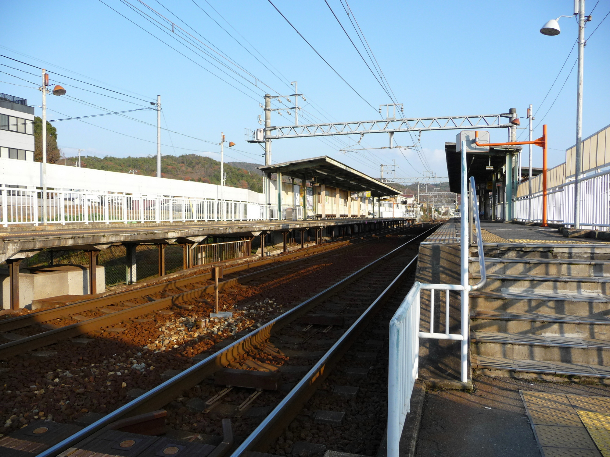 Kobe Electric Railway Sakae Staion platform